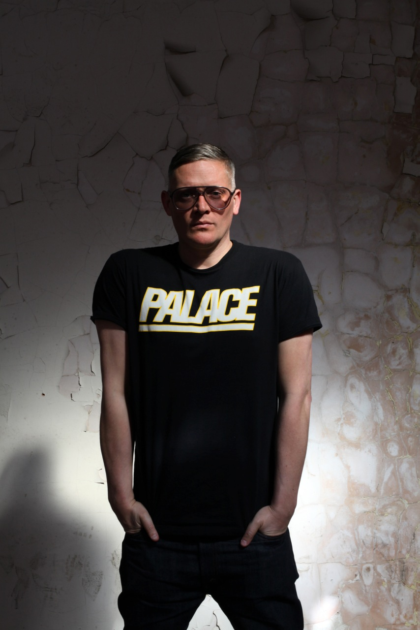 GILES PORTRAIT BY GAUTIER DEBLONDE